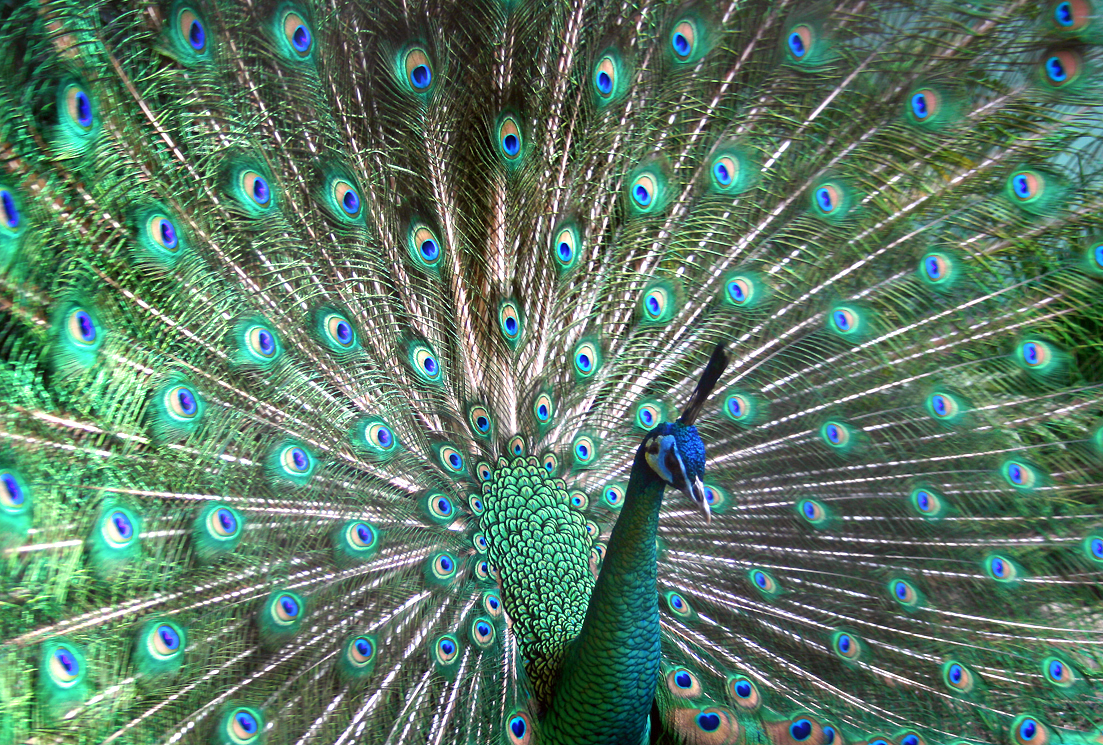 Another photo of the peacock that posed for me a couple of weeks ago. My computer is going so slow tonight so I dont think I will be visiting many people photos, Will catch up tommorrow